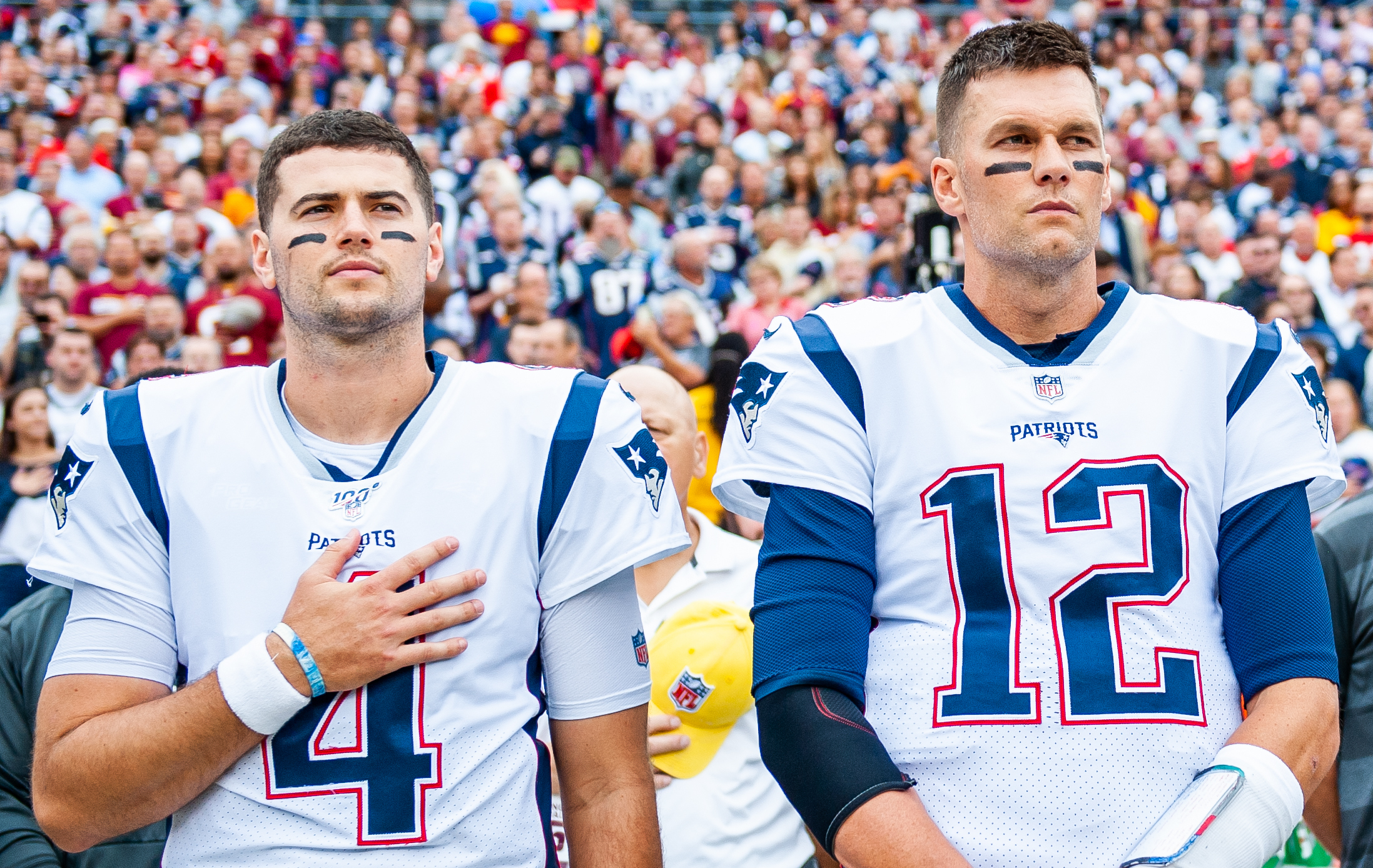 Brady and Stidham in 2019